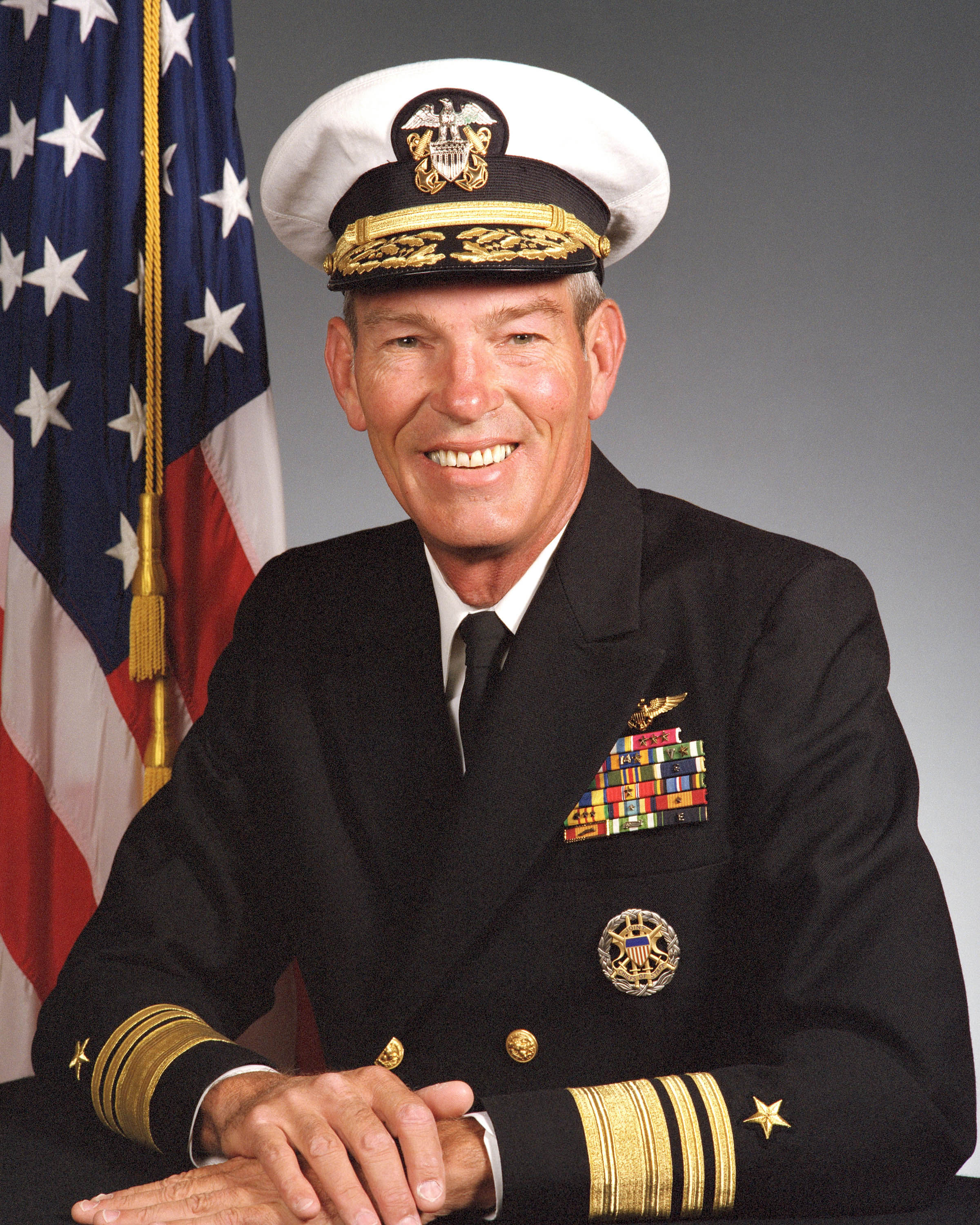 Richard C. Macke, retired United States Navy admiral.